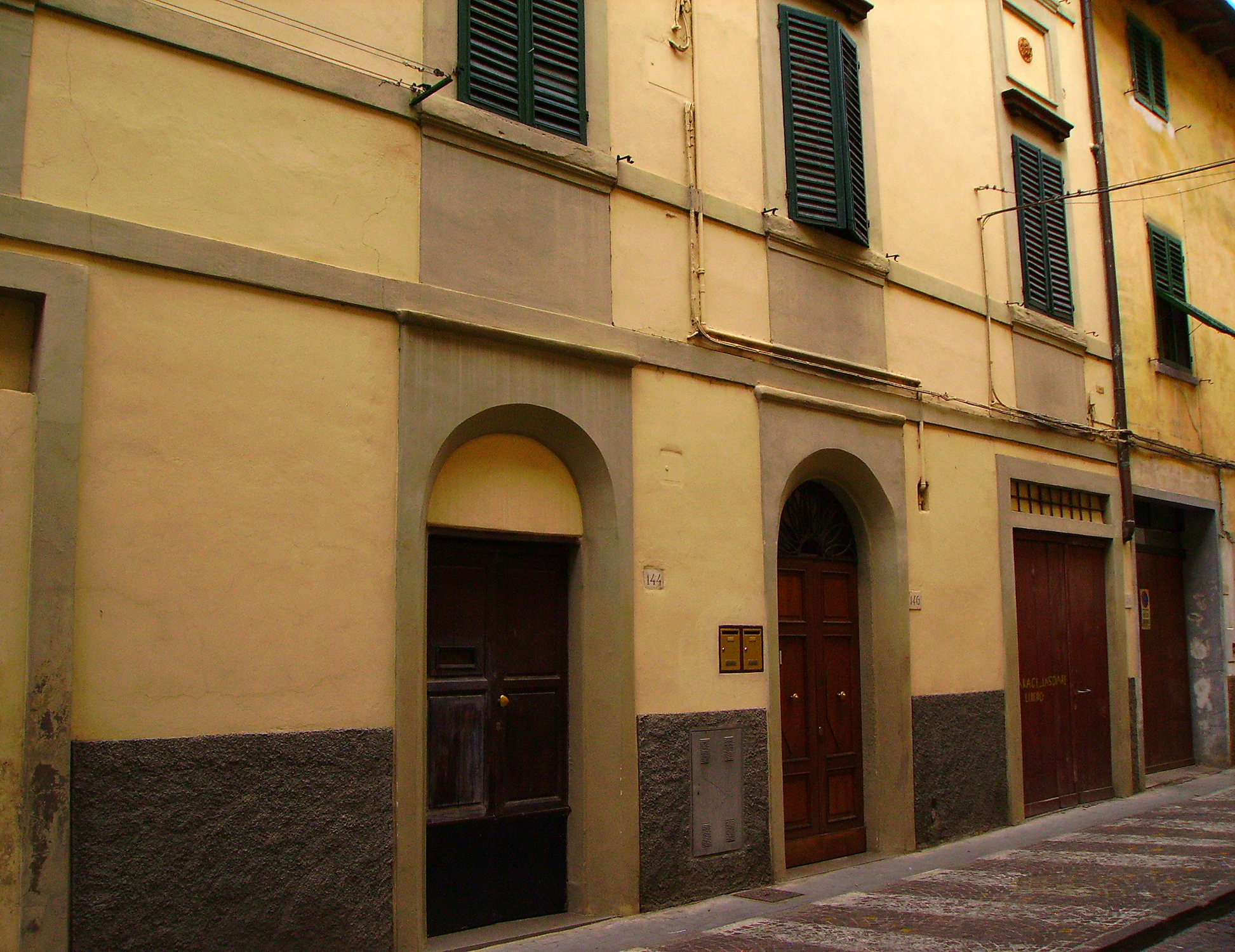 The right side of the former church of Sant' Andrea a Cennano.